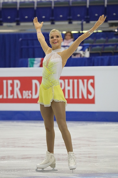 Helery Hälvin at the 2017 European Figure Skating Championships.